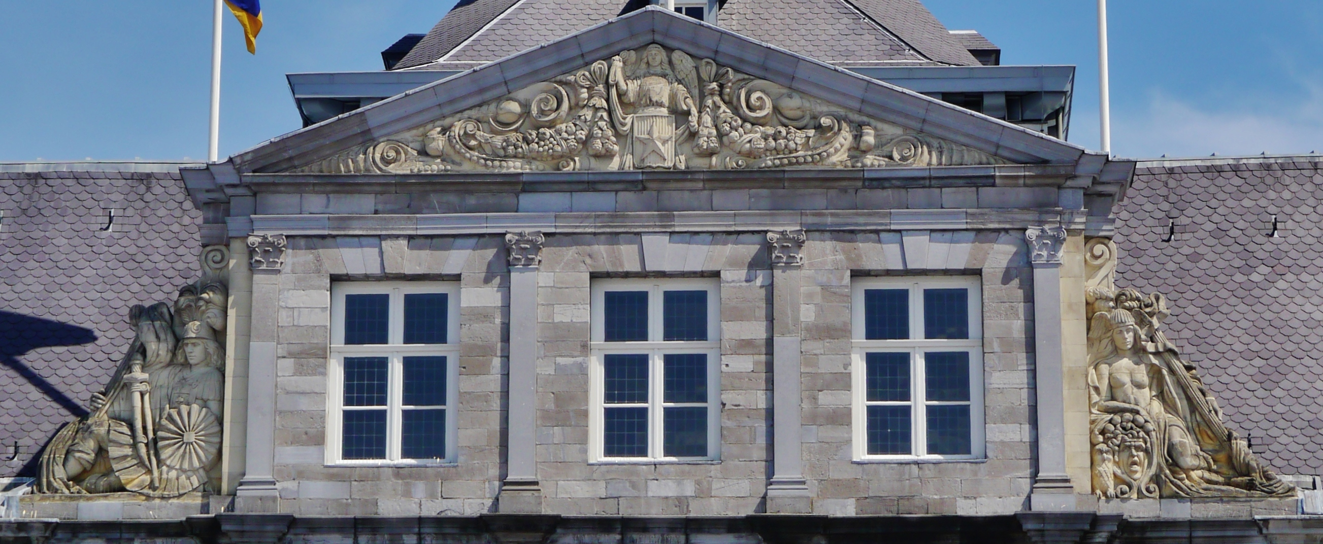 Tower of the City Hall, Maastricht, Province of Limburg, Netherlands